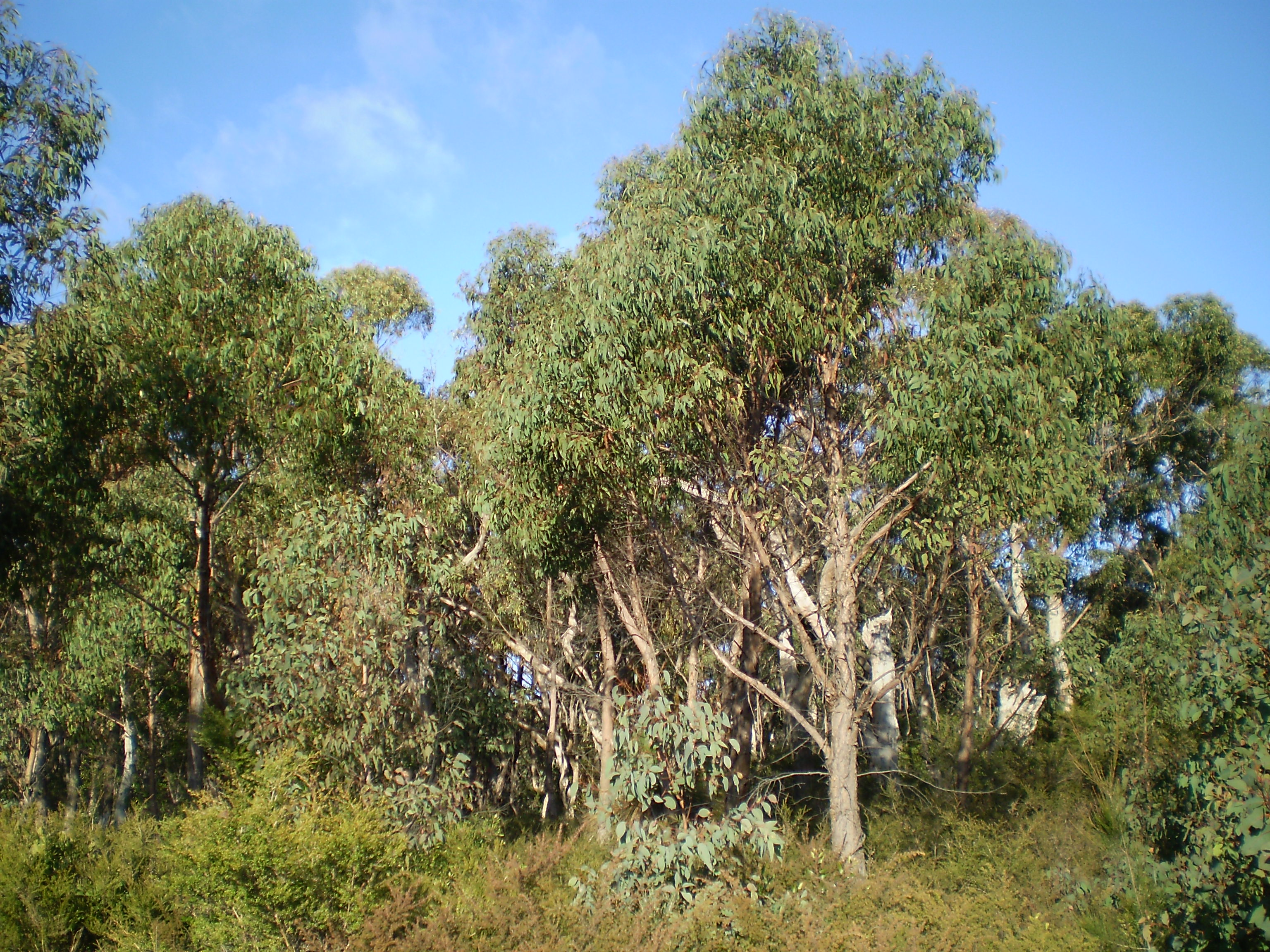 Eucalyptus olida, strawberry gum, dominated woodland with shrub understorey.